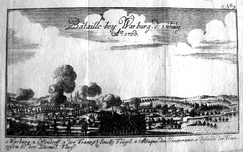 Bataille bey Warburg, July 1760 (Engraving according to the Battle of Warburg). Engraving by an unknown author from the 18th century. Text under the picture: 1. Warburg, 2. Ossendorf, 3. Left wing of the French, 4. Attack of the Hanoverians, 5. Retreat of the French, 6. The river Diemel.